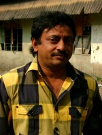 I am the author. I took the picture myself at the shoot of Ram Gopal Varma's latest flick "Dongala Mutha".